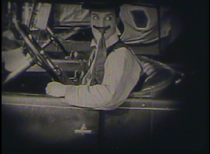 Buster Keaton makes a clever disguise from his tie. From the American comedy film Cops (1922).